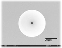 scanning electron microscope image of planar patch chip (Author: N. Fertig)